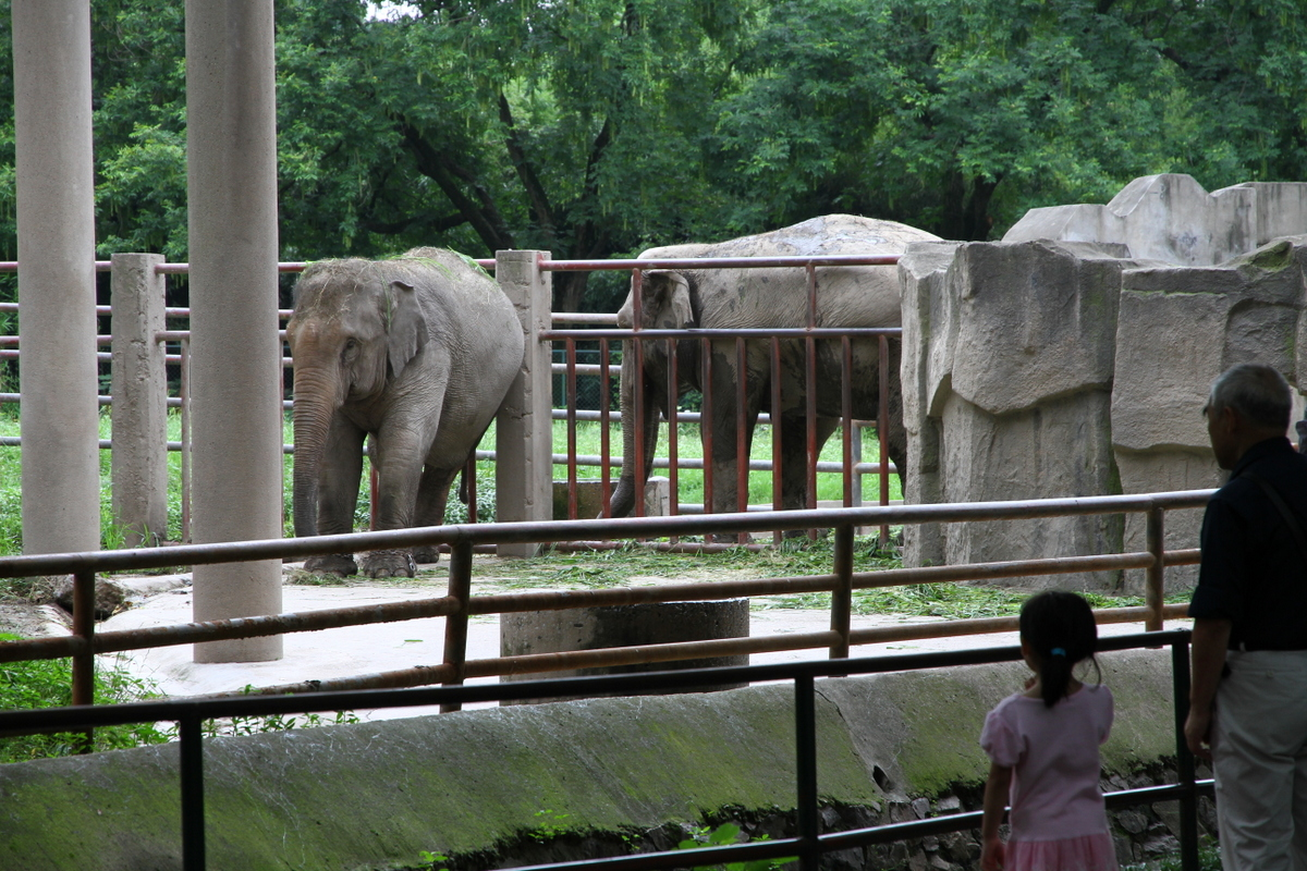 Elephant in Shanghai Zoo